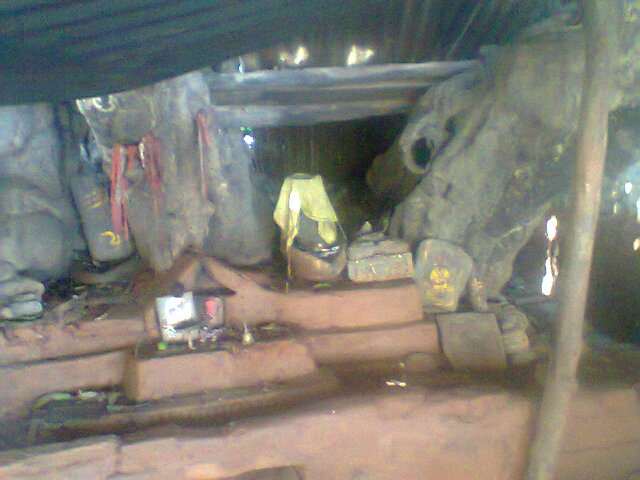 Dharma Gadhi